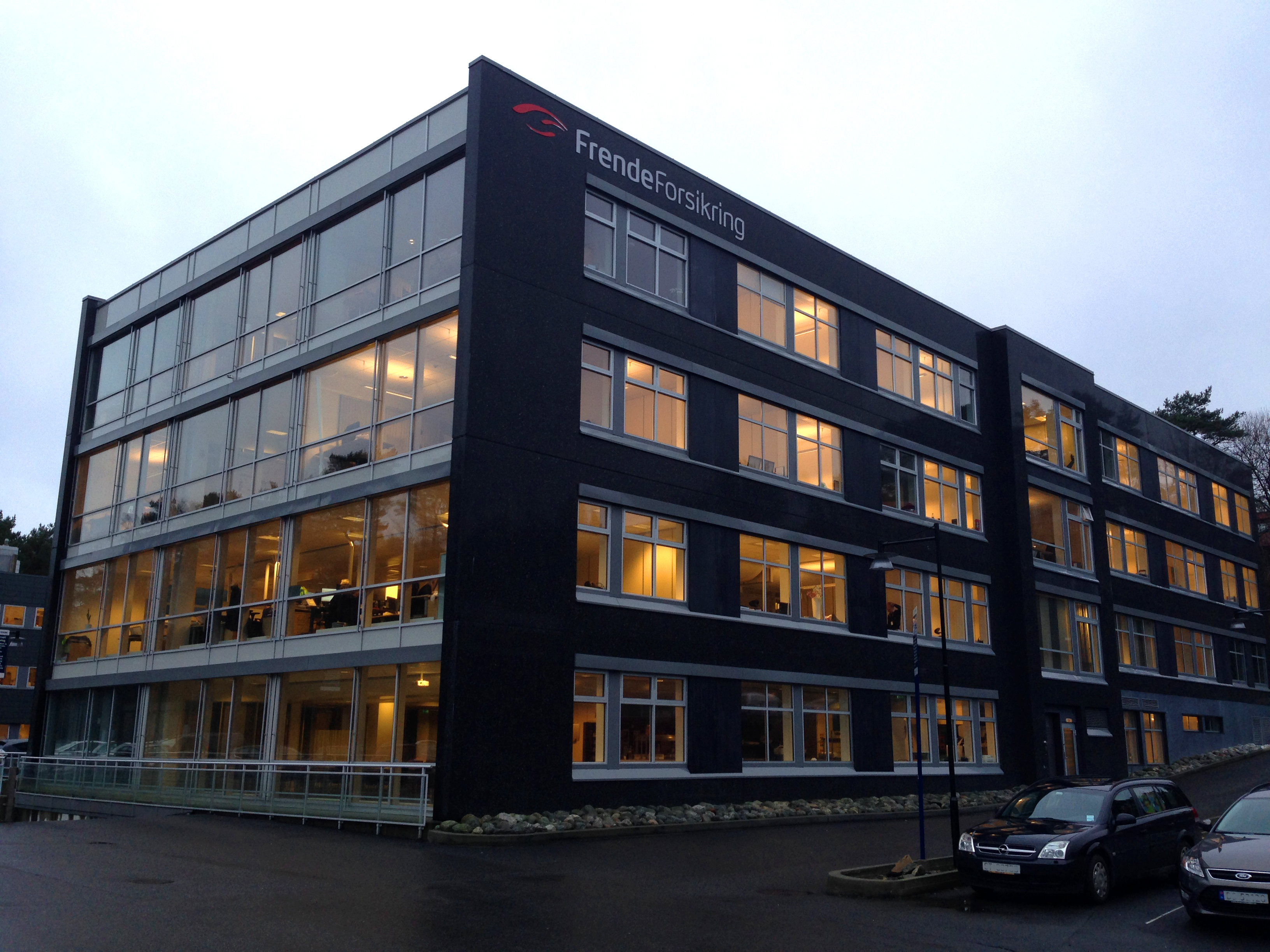 Frende Forsikring headquarters Fyllingsdalen, Bergen